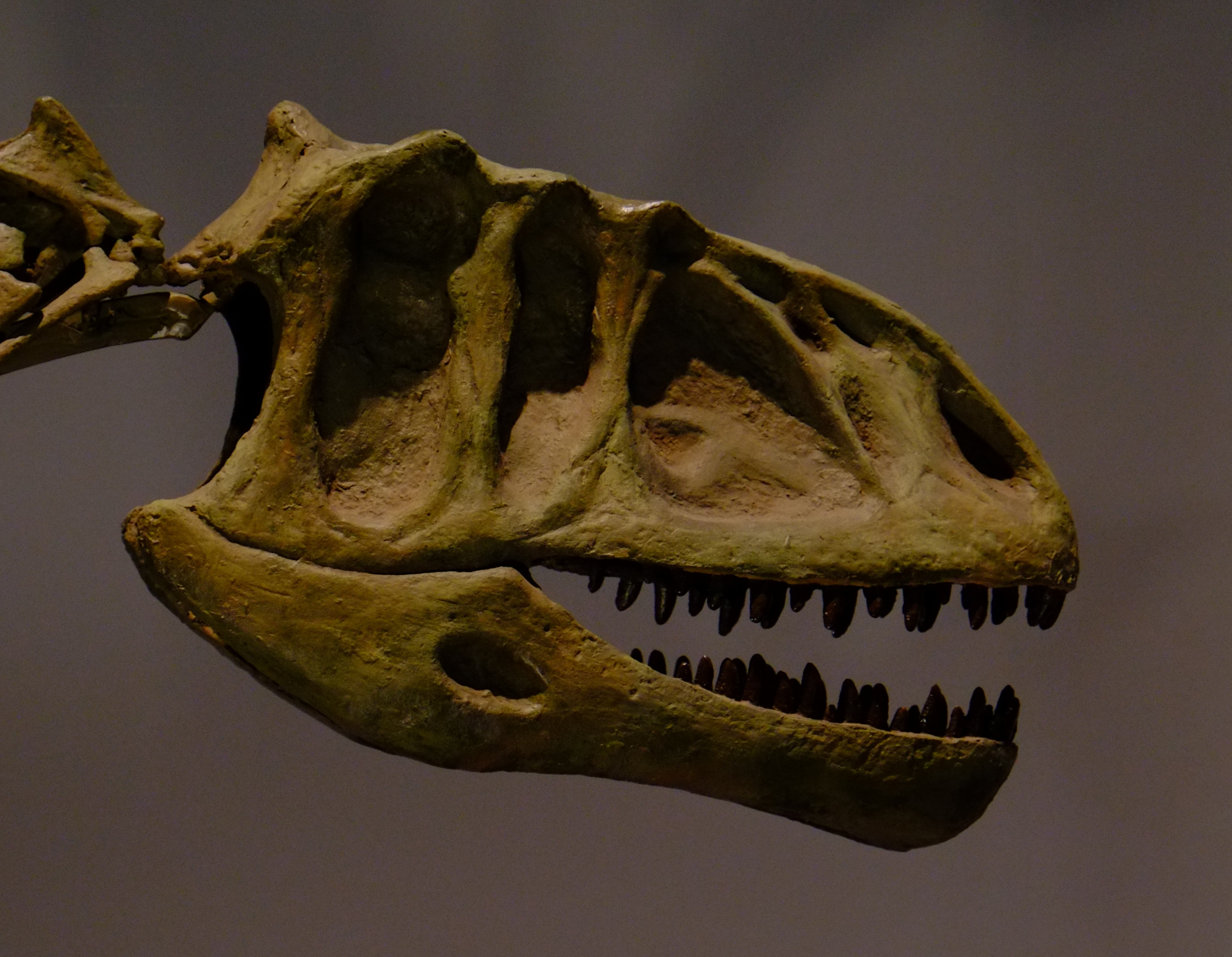 Close up view of the skull of Yangchuanosaurus